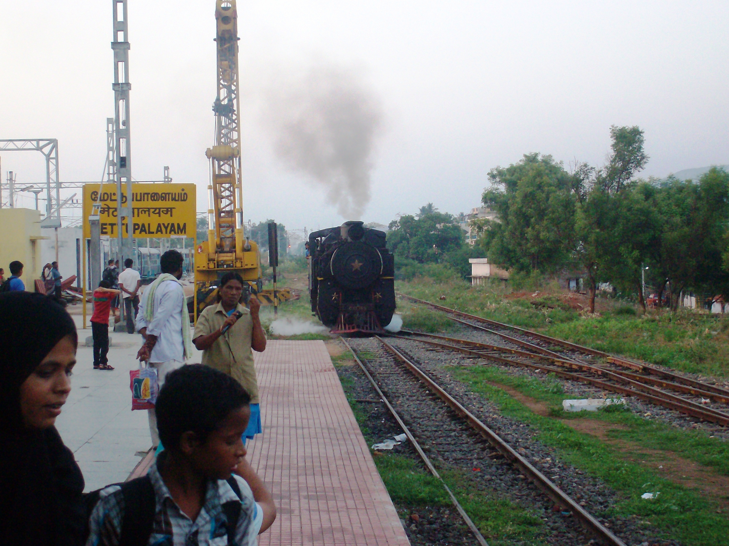 Ooty_mountain_train_at_mettupalayam_railway_station_jadan